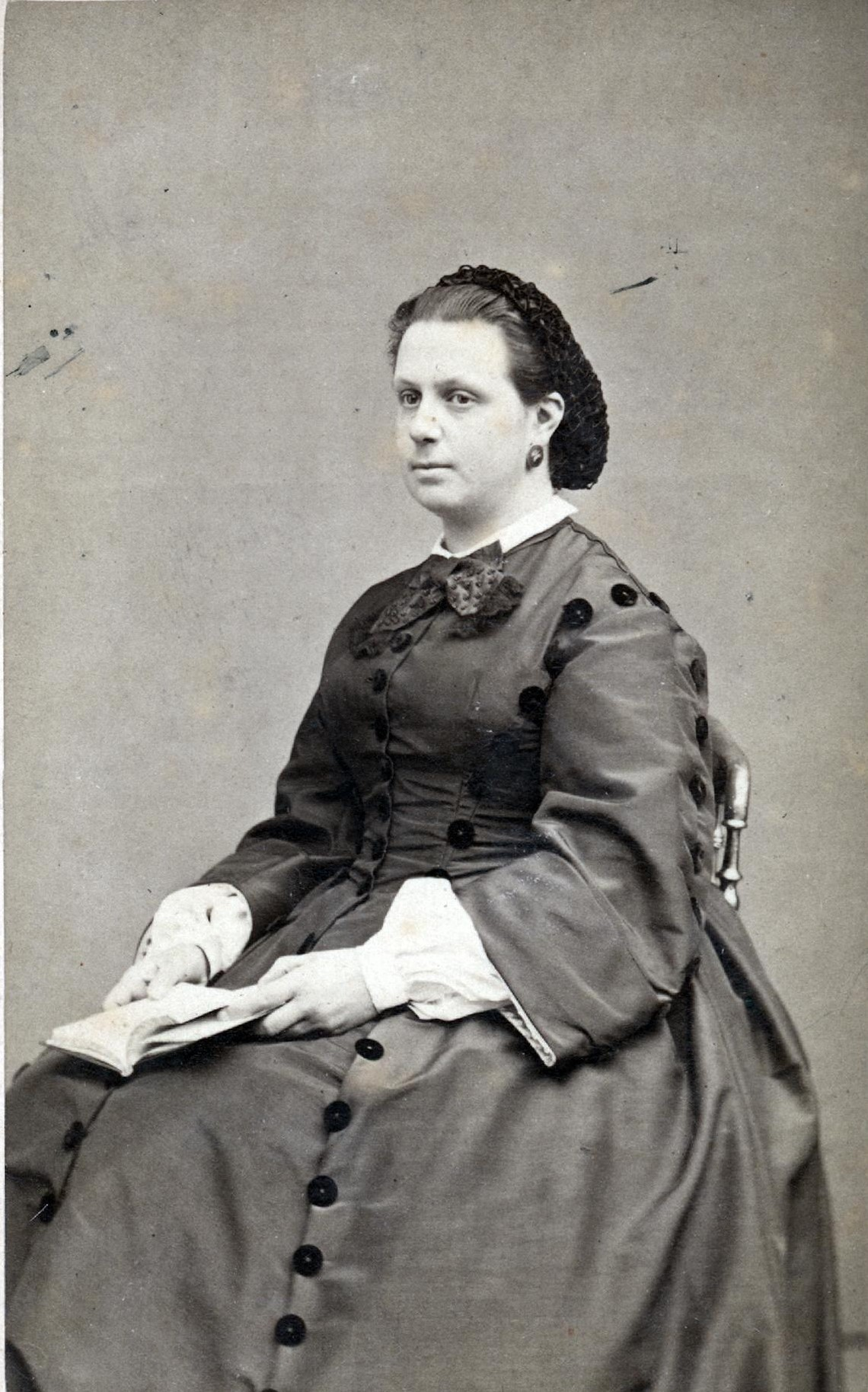 Bildnis in mittleren Jahren.